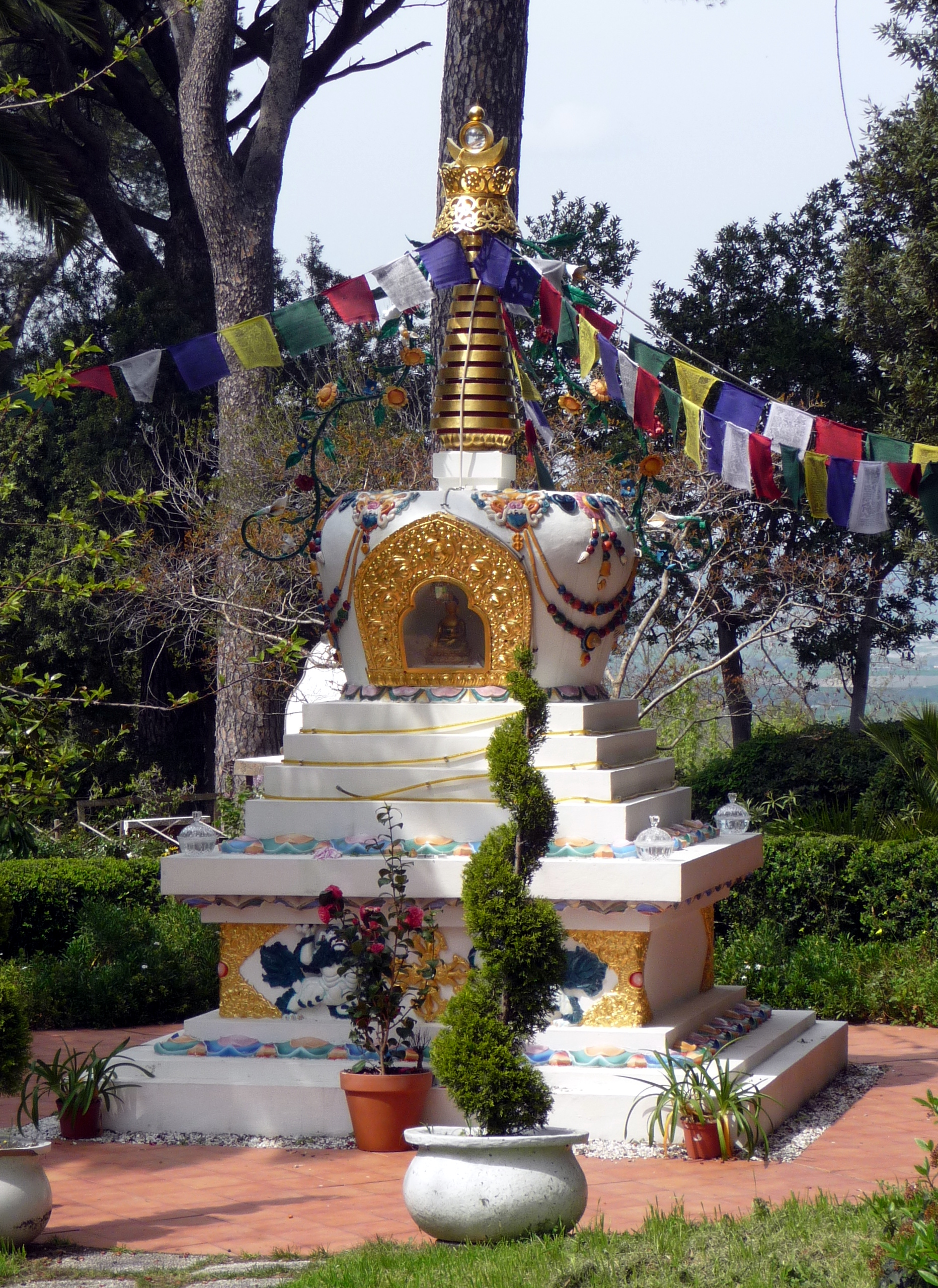 Stupa in the garden of the Istituto Lama Tzong Khapa, Pomaia, Santa Luce, Province Pisa, Tuscany, Italy